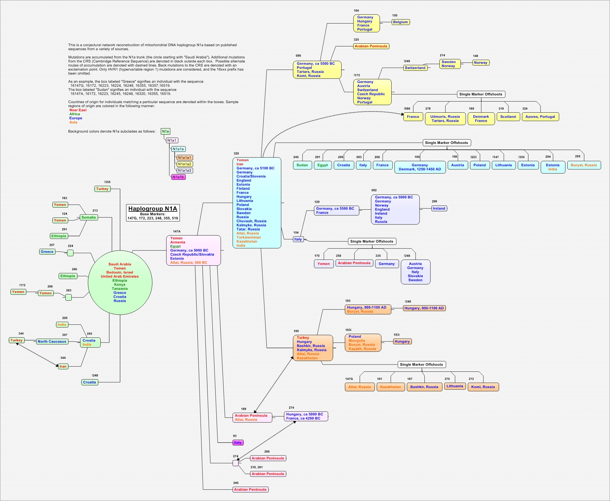 reconstructed network of mitochondrial DNA haplogroup N1a based on published sequences